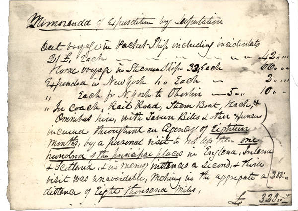 William Dawes expenses for his and John Keeps visit to the UK on behalf of Oberlin College in Ohio.